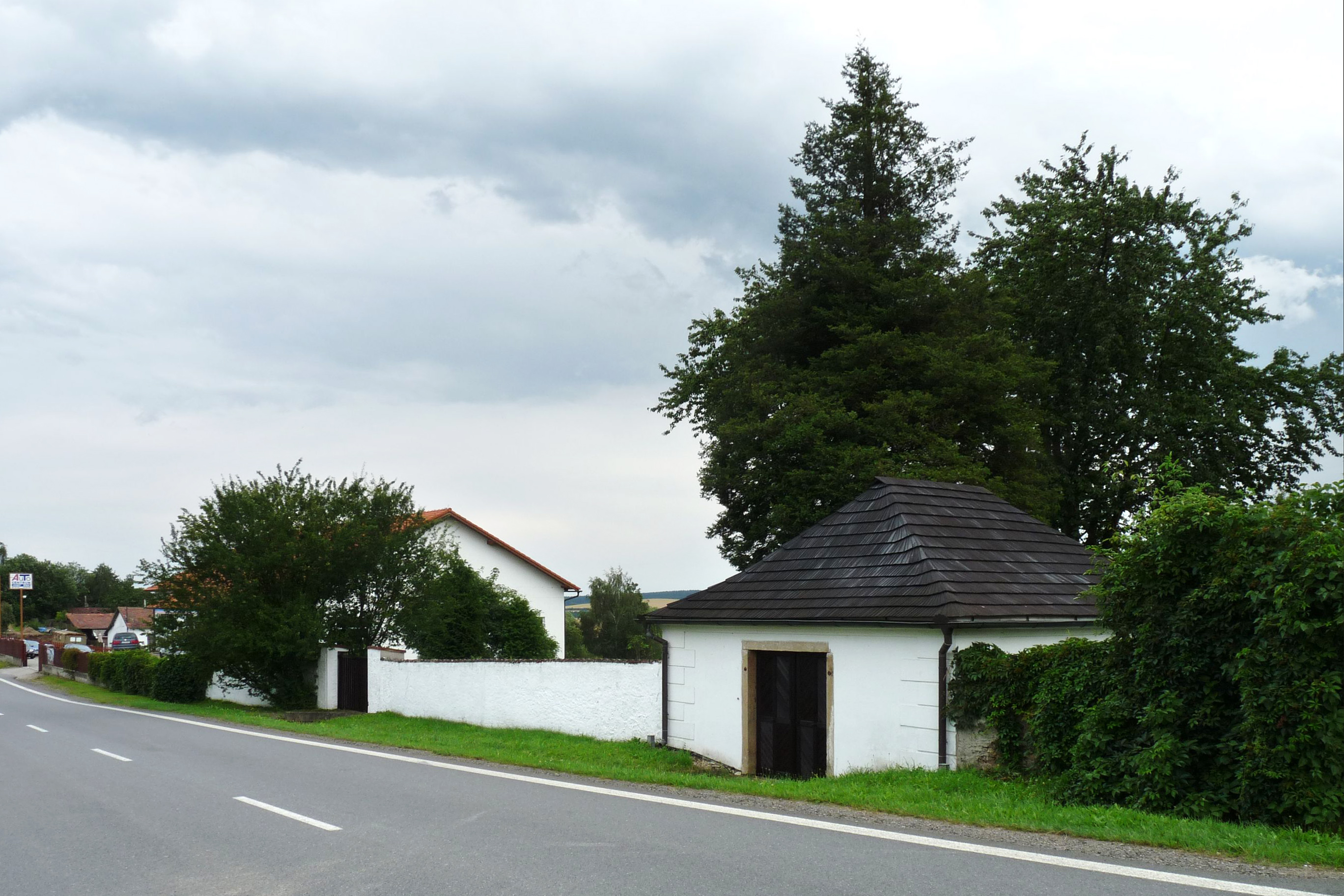 Entrance to the Jewish cemetery in the town of Pacov, Pelhřimov District, Czech Republic.